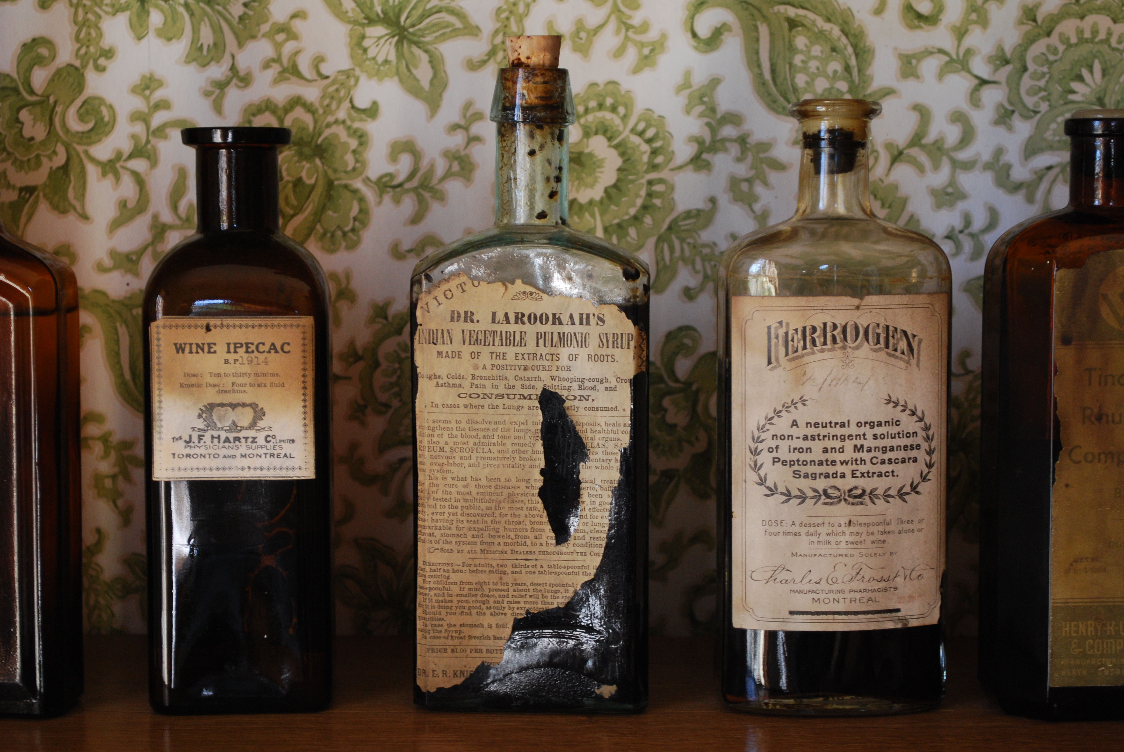 Apothecary bottles line the shelves inside the recreated Sherbrooke drug store in Sherbrooke Village Museum (a restored 1860's lumbering and shipbuilding community) in the town of Sherbrooke, Nova Scotia, Canada. The drug store is one of other buildings in the village which has been restored to its original condition, as a late nineteenth- to early twentieth-century pharmacy. The pharmacy's old medicine bottles, period drugs, proprietary medicines, containers, and equipment date back to 1880 and were collected by the College of Pharmacy, Dalhousie University, with some fixtures originally coming from Ontario.